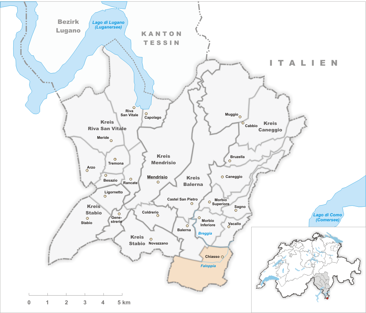 Municipality Chiasso